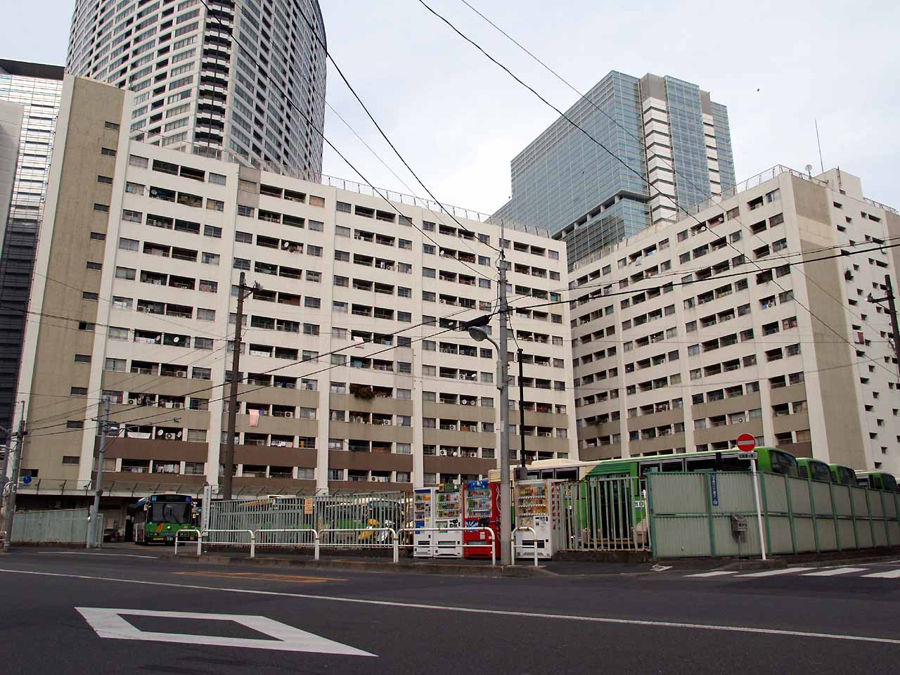 Part of Toei Bus Shinagawa dept.（東京都交通局品川自動車営業所）